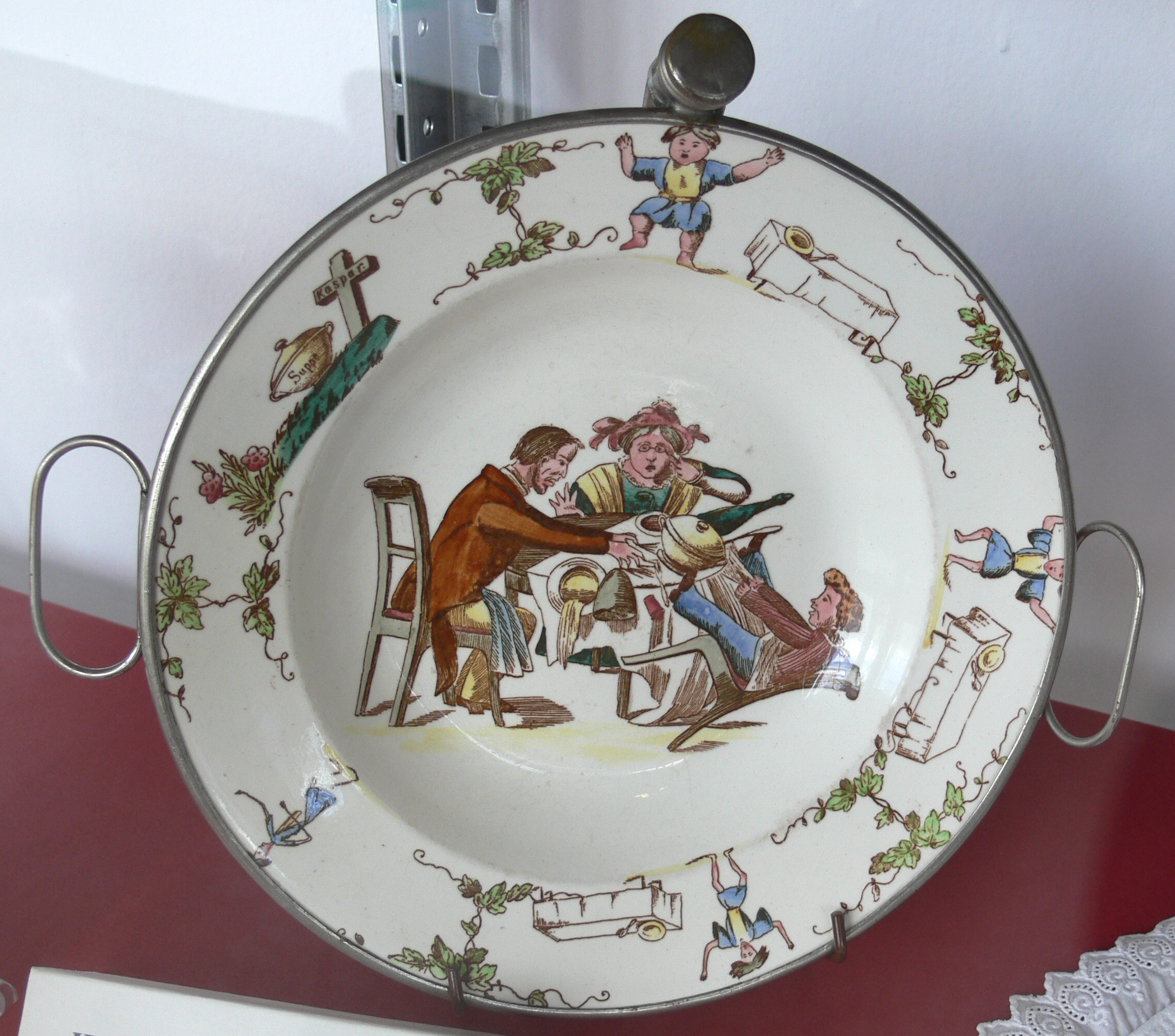 Warming soup plate (with an inlet for hot water) with illustrations from "Zappel-Philipp" (Fidgety Philip) and "Suppen-Kaspar" ("Soup Casper", a poor eater) from the classic German children's boook "Struwwelpeter" (Shock-headed Peter) by Heinrich Hoffmann; photographed at "Sammlung Kindheit und Jugend" (Collection of Childhood and Youth), Berlin communal museum "Stadtmuseum Berlin", Berlin, Germany